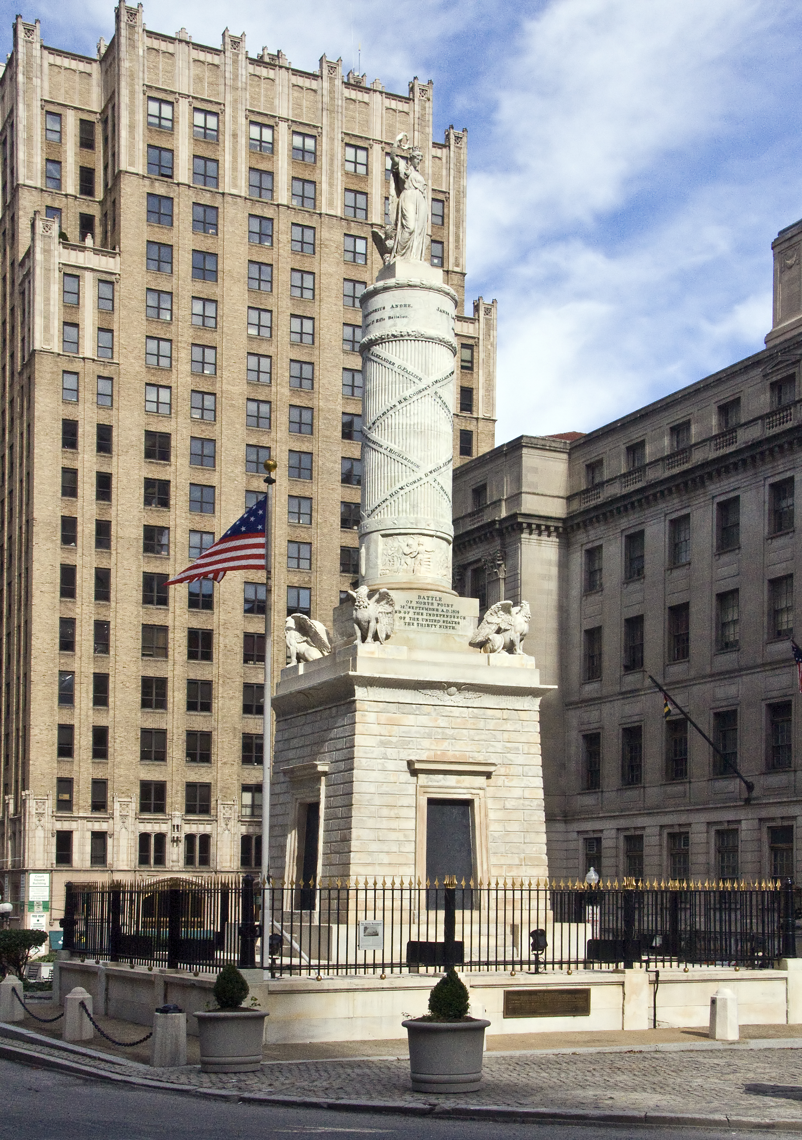 The Battle Monument in Baltimore, Maryland, commemorating the Battle of Baltimore in September 1814.